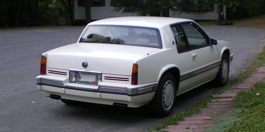 1990 Eldorado Touring Coupe